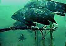 black sea bass (Centropristis striata)